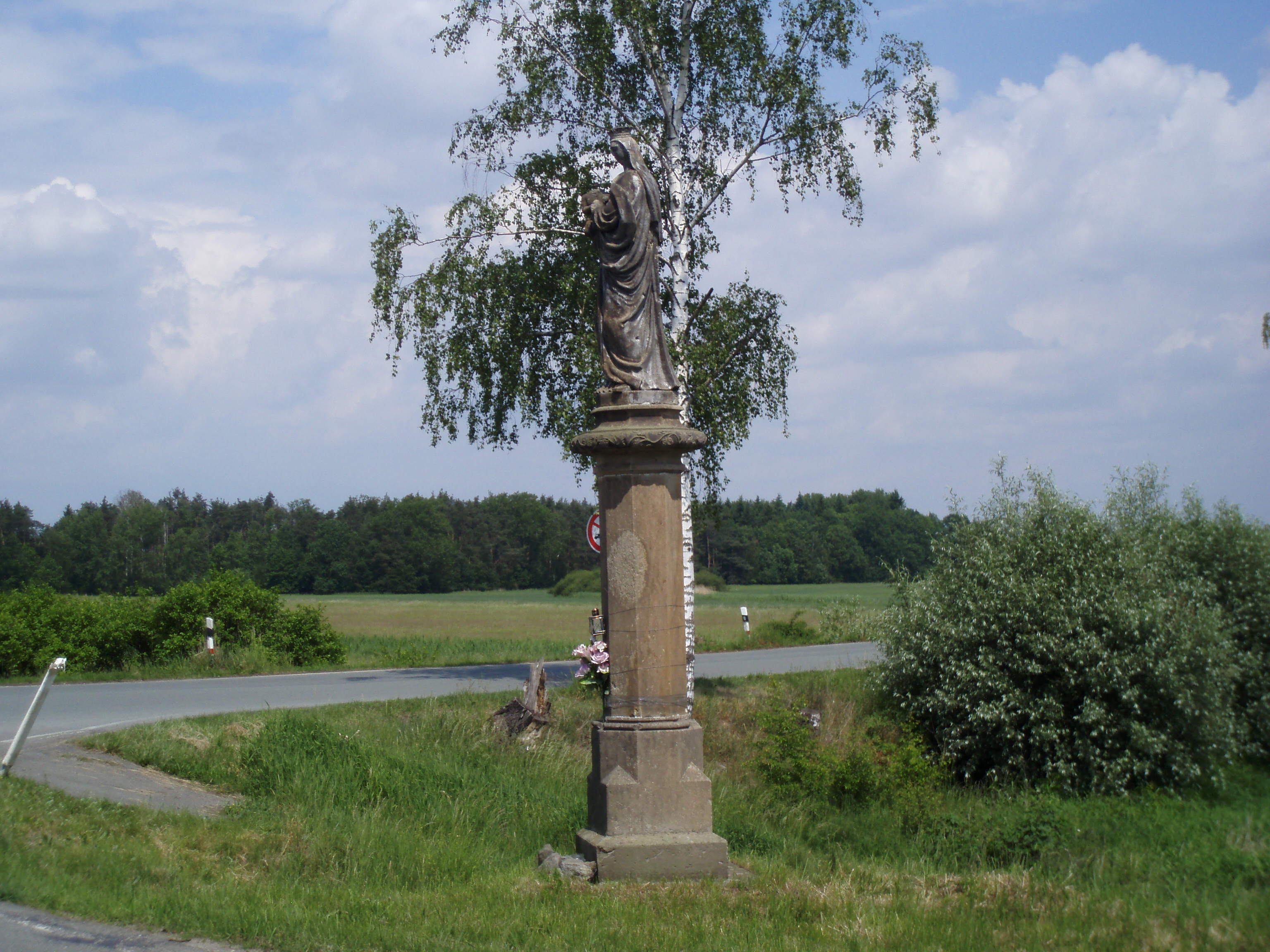 Statue of Virgin Mary in Březhrad (Hradec Králové, Czechia)